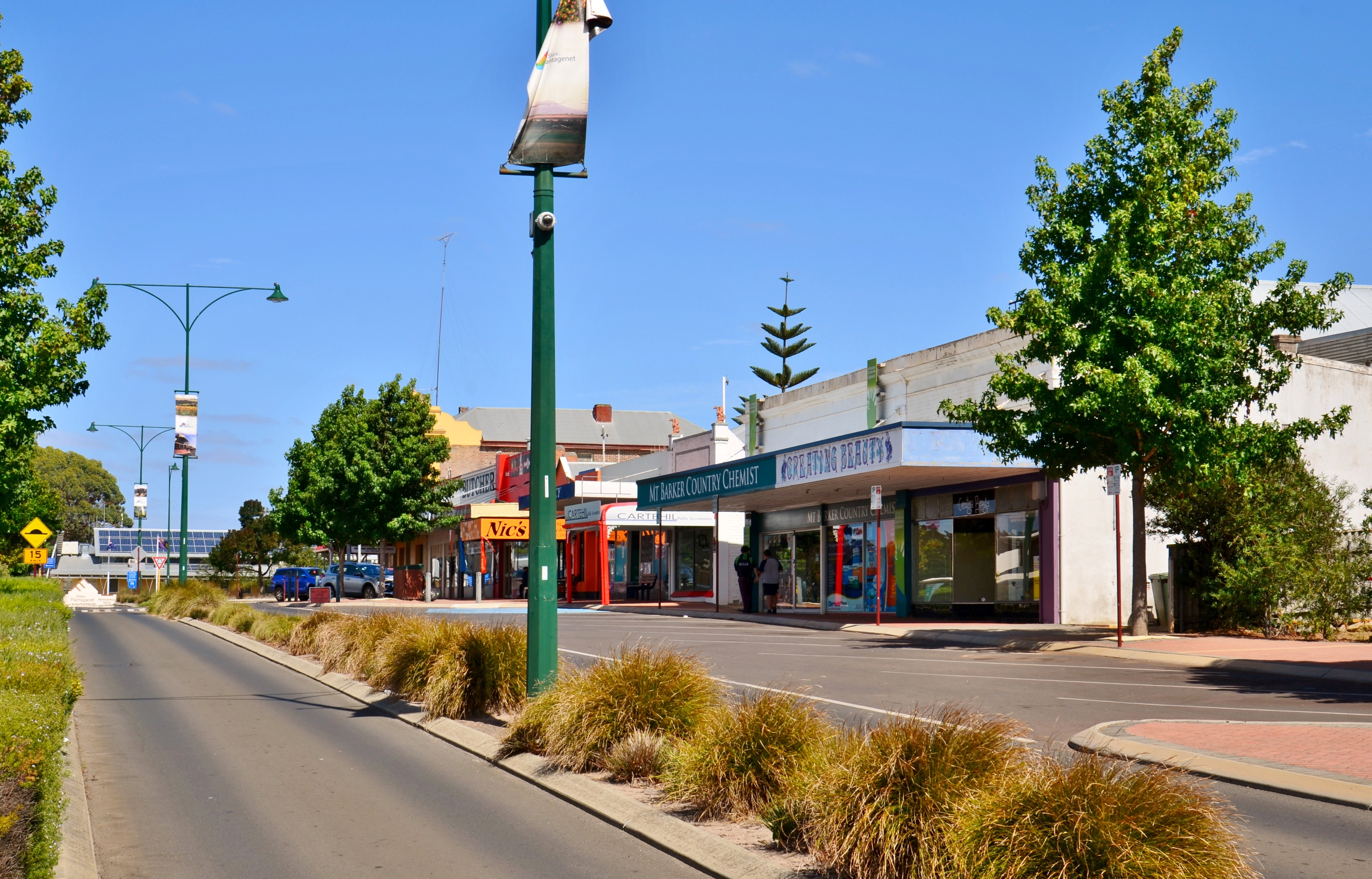 View of Lowood Road, Mount Barker, Western Australia